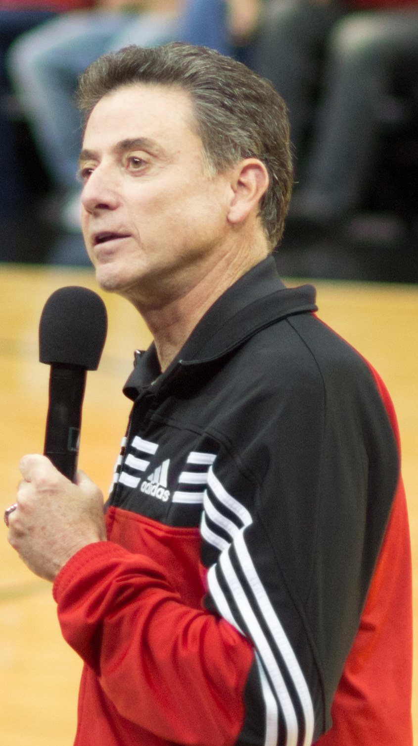 Rick Pitino addresses the crowd before the Red White Scrimmage on October 21, 2012.